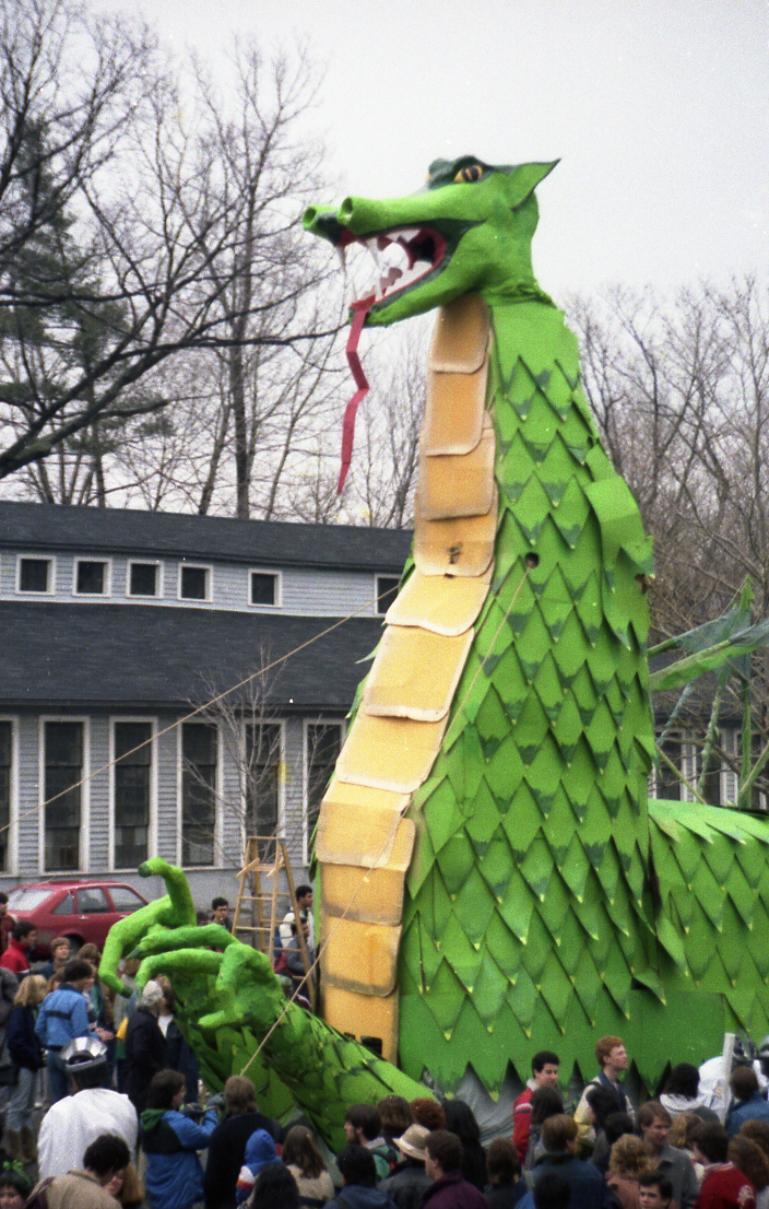 Dragon created by Cornell University architecture students for Dragon Day, March 1986. Dragon Day is a Cornell tradition.